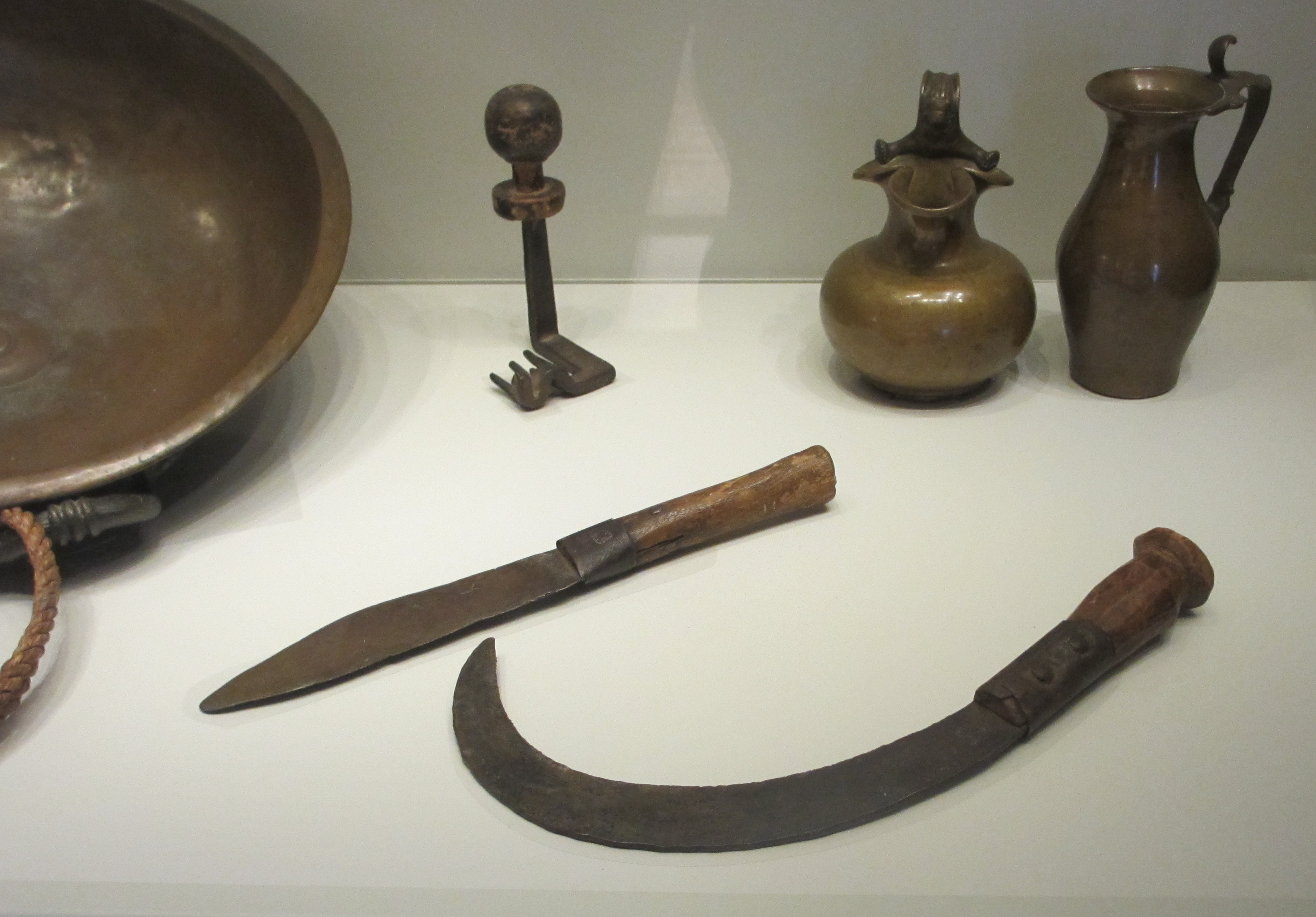 Sickle and knife (iron and wood), key, jars (copper). Cave of the Letters, Nahal Hever (132-135 CE). Israel Museum, Jerusalem